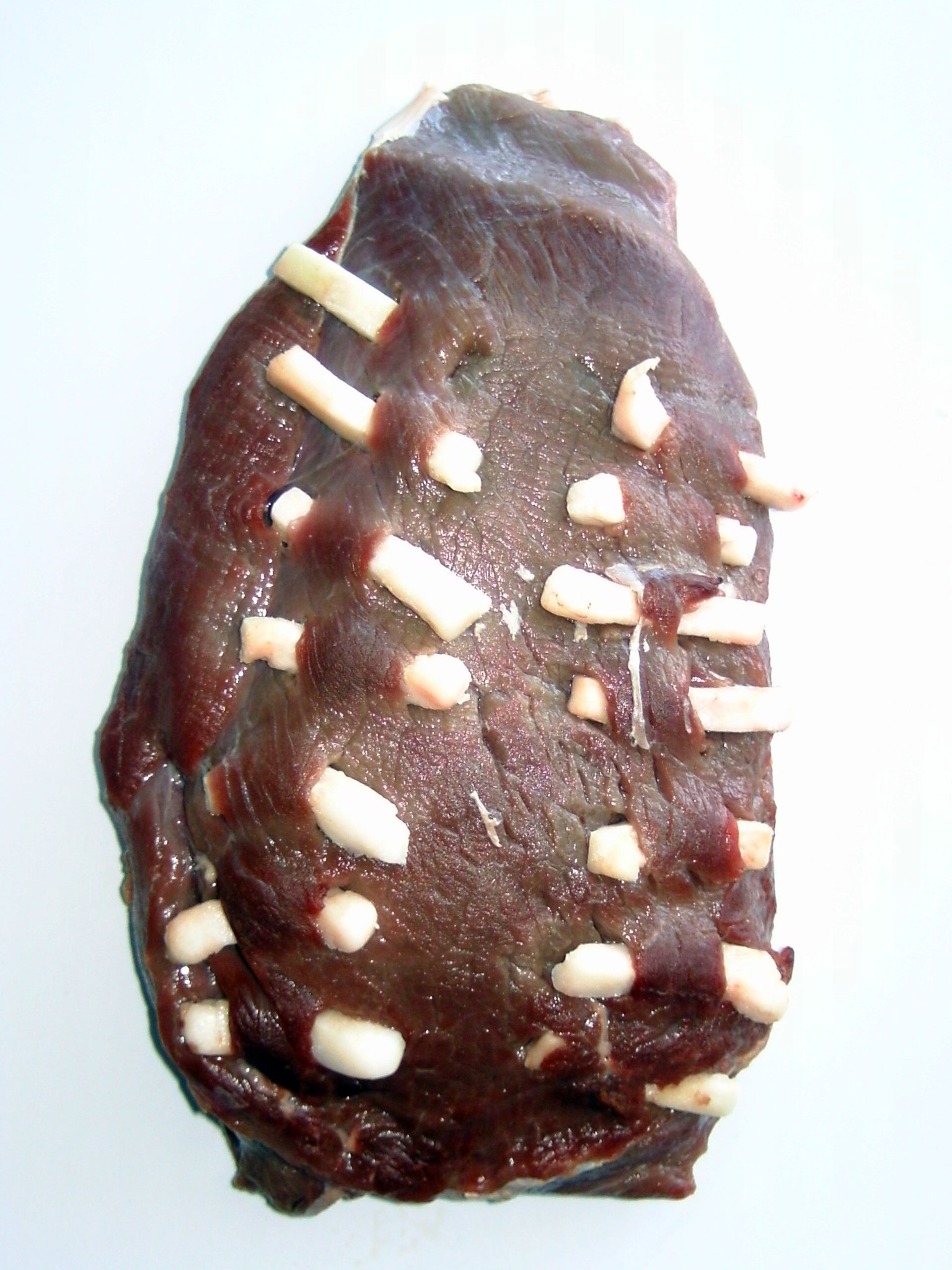 Larded venison (shoulder)